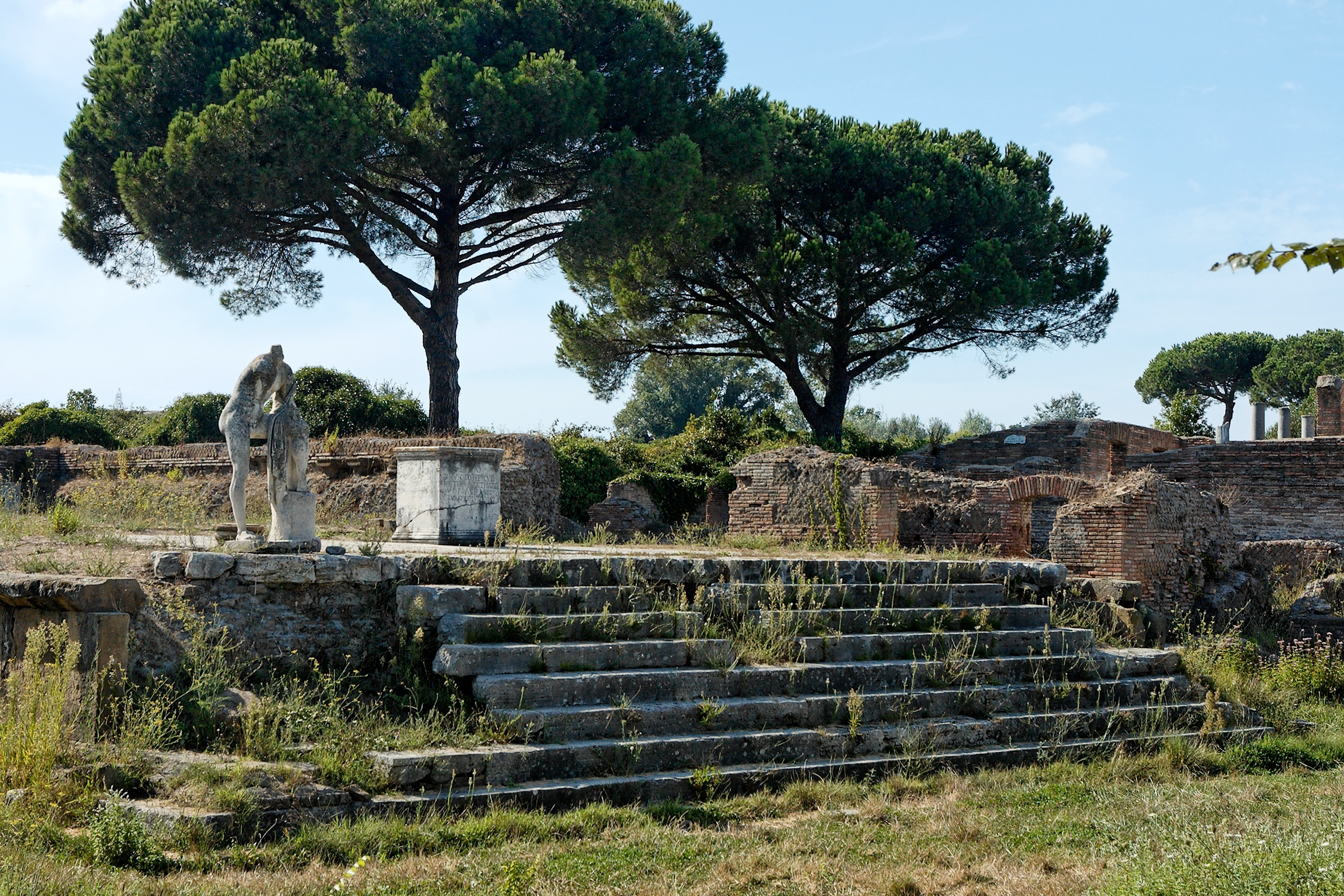 Temple of Herakles and statue of C. Cartilius Poplicola (regio I, insula XV). Ostia Antica, Latium, Italy.